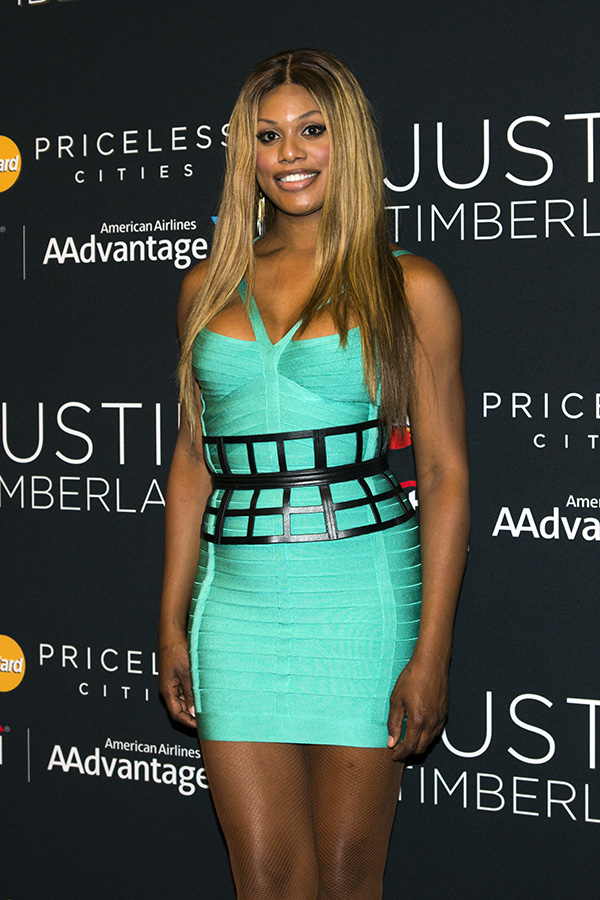 Laverne Cox on the red carpet at the Citi/AAdvantage MasterCard Priceless Access Performance with Justin Timberlake on Thursday, July 10th.